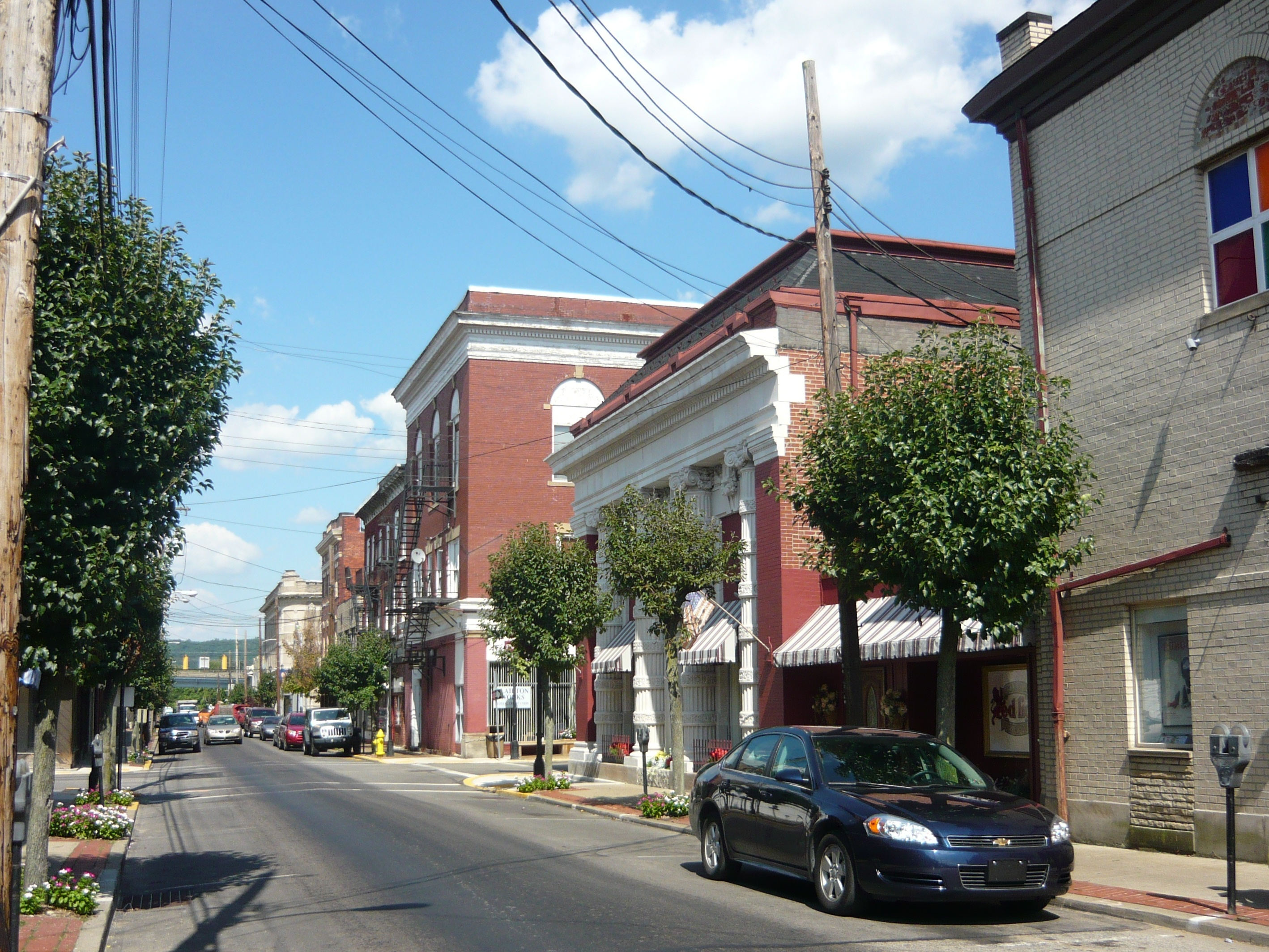 Business district of Elizabeth, Allegheny County, Pennsylvania. Looking northward on South Second Avenue. The building at the right-hand edge of the photo is the Grand Theater.